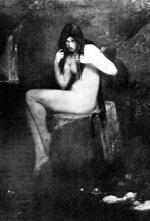 The Kelpie